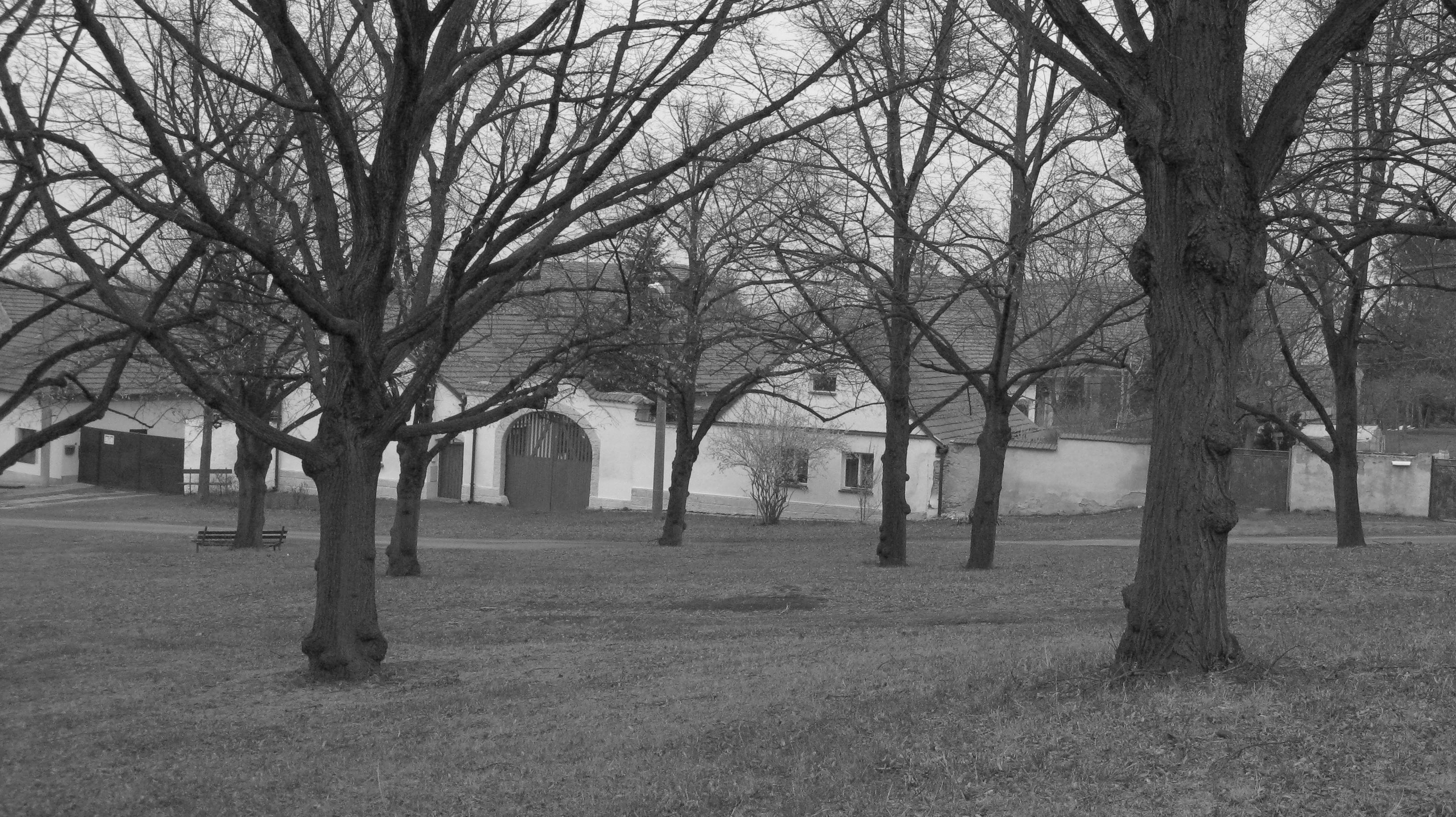 made by user DoraD on spring 2008